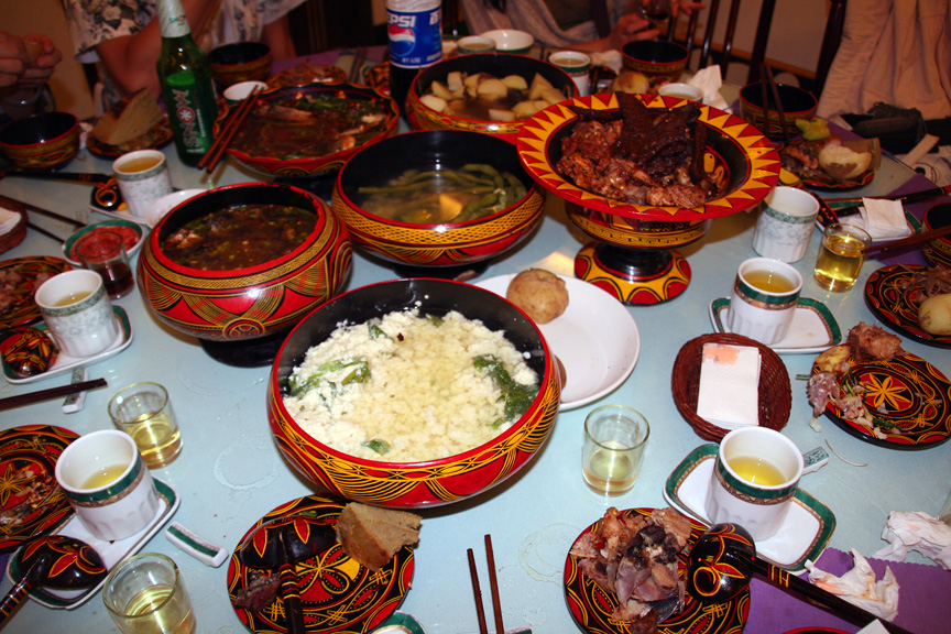 This is supposed to be a traditional Yi meal. It involved insanely spicy food.